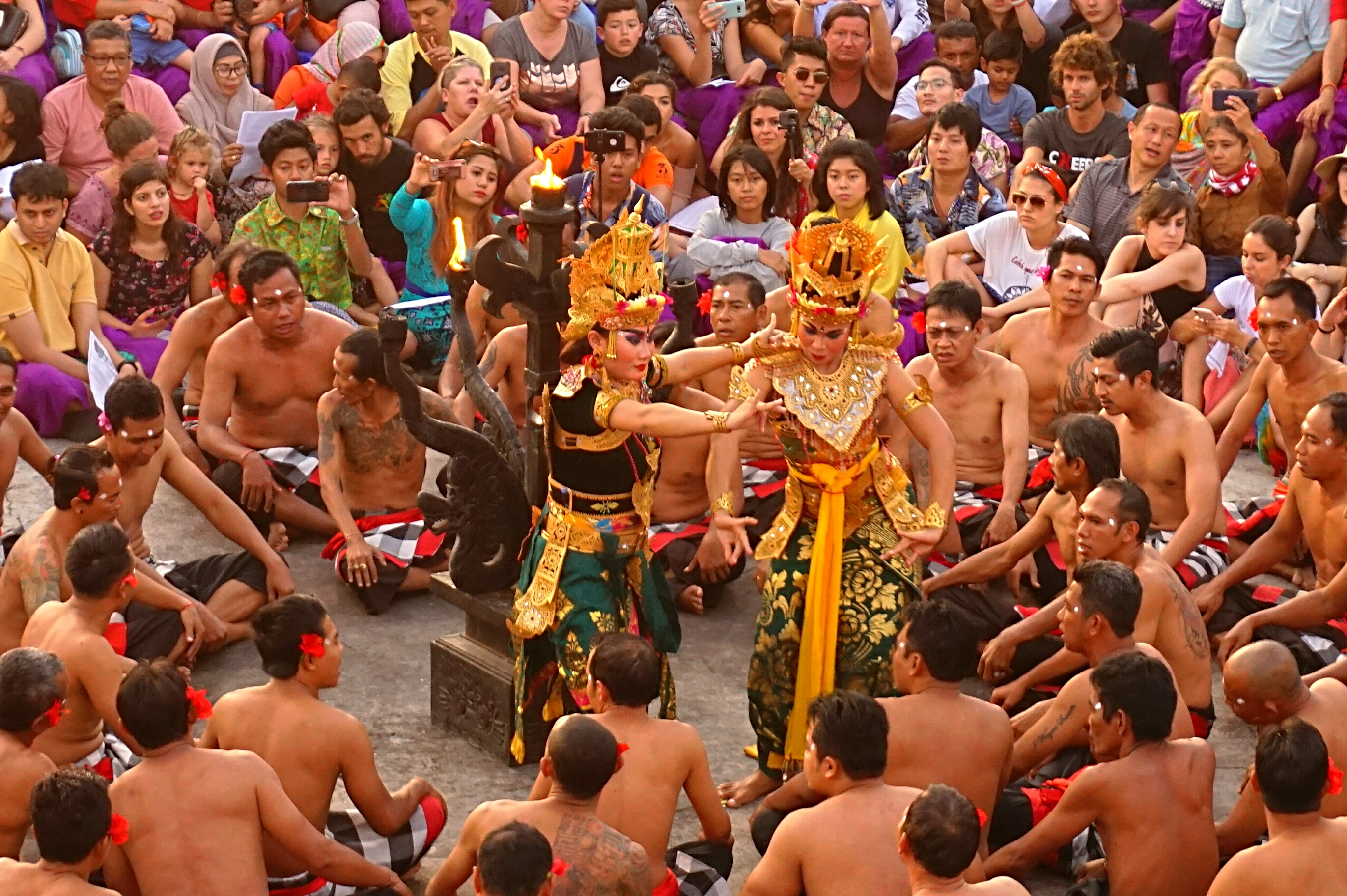 Two dancers casting the romance of Rama (center, left) and Shinta (center, right) within Ramayana Kecak Dance performed at Uluwatu Temple, Bali